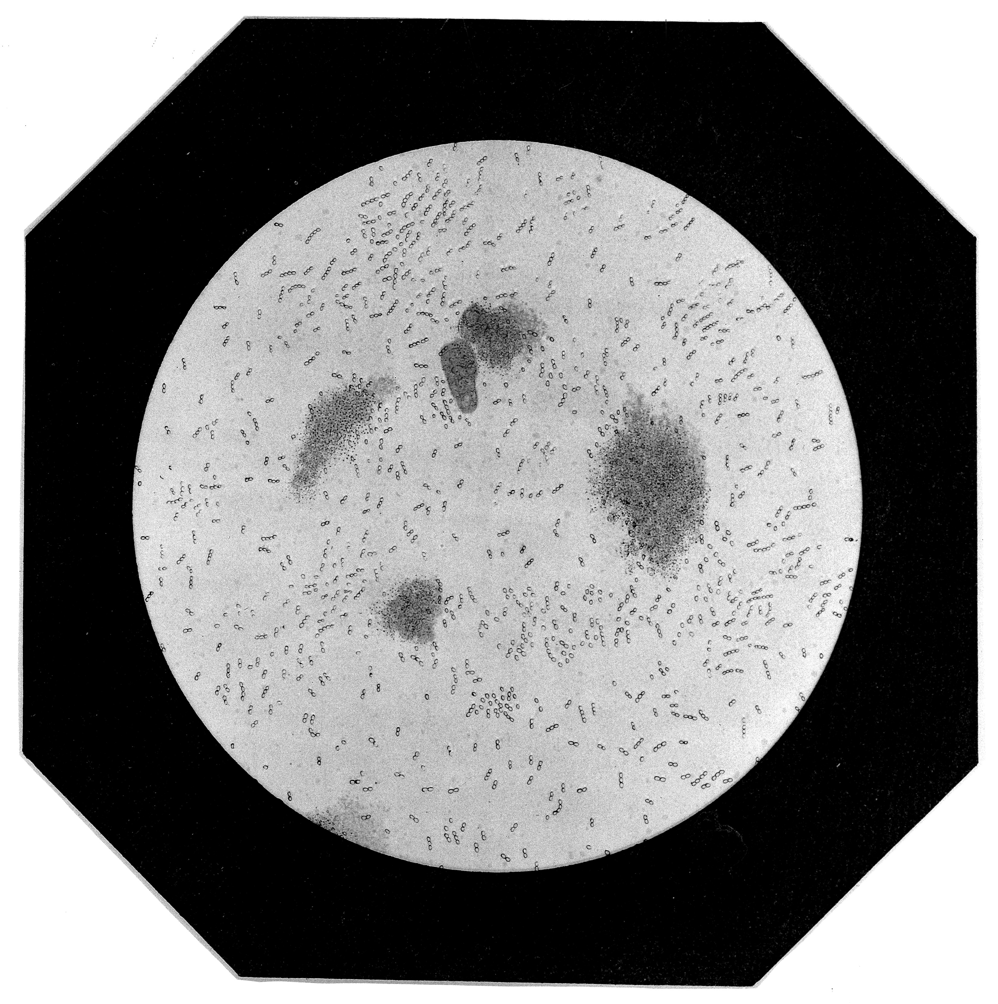 Bead like yeast in mulberry leaf pounded with water and fermented. General Collections Keywords: Bacteriology; silk worms; Louis Pasteur